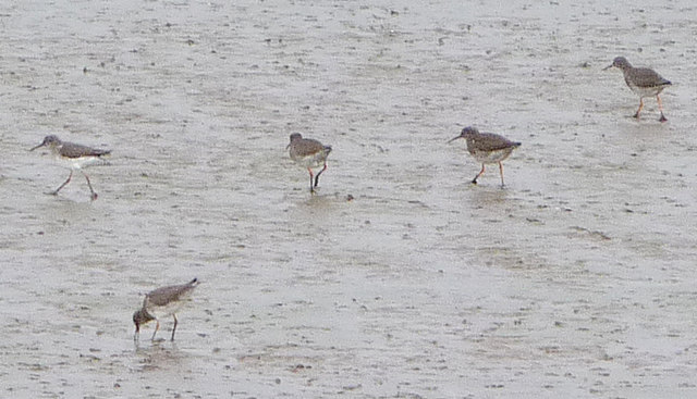 Redshanks on the Humber Foreshore Redshanks foraging on the Humber foreshore at low tide.